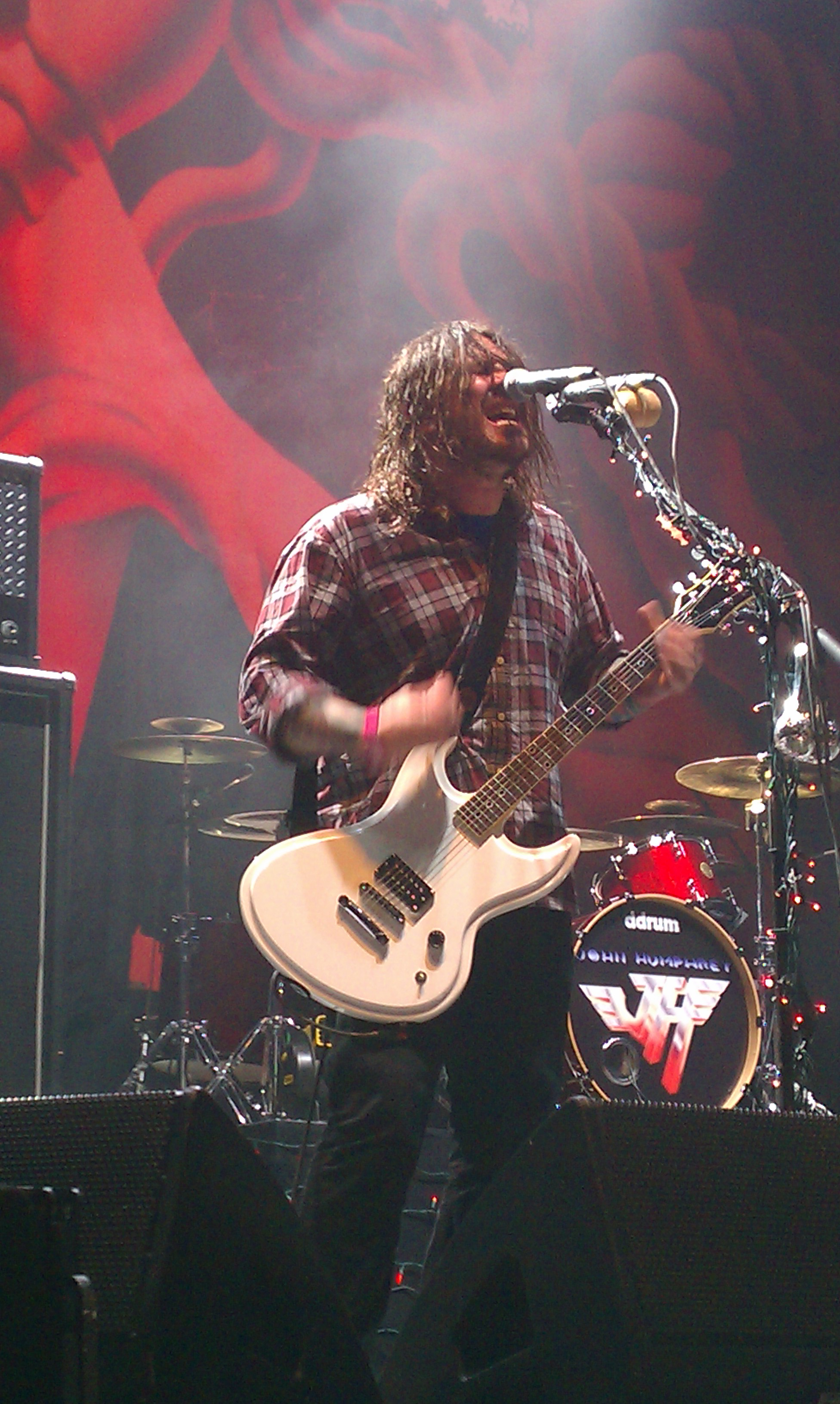 Shaun Morgan with Seether at the Van Andel Arena 9/20/2011